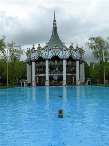 Six Flags Great America's Columbia Carousel from across the water